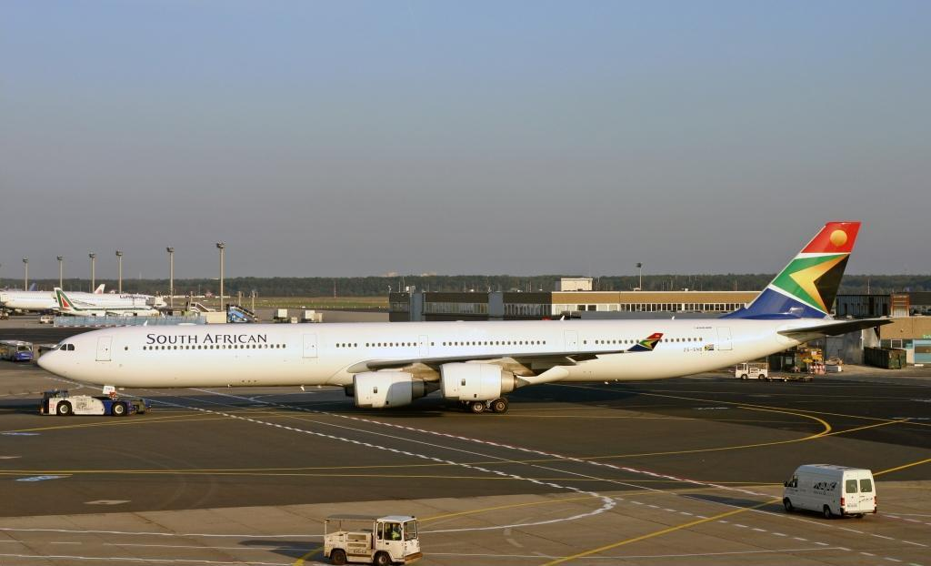 Airbus A340-600 in 1997 colour scheme. South African Airways Airbus A340-600.